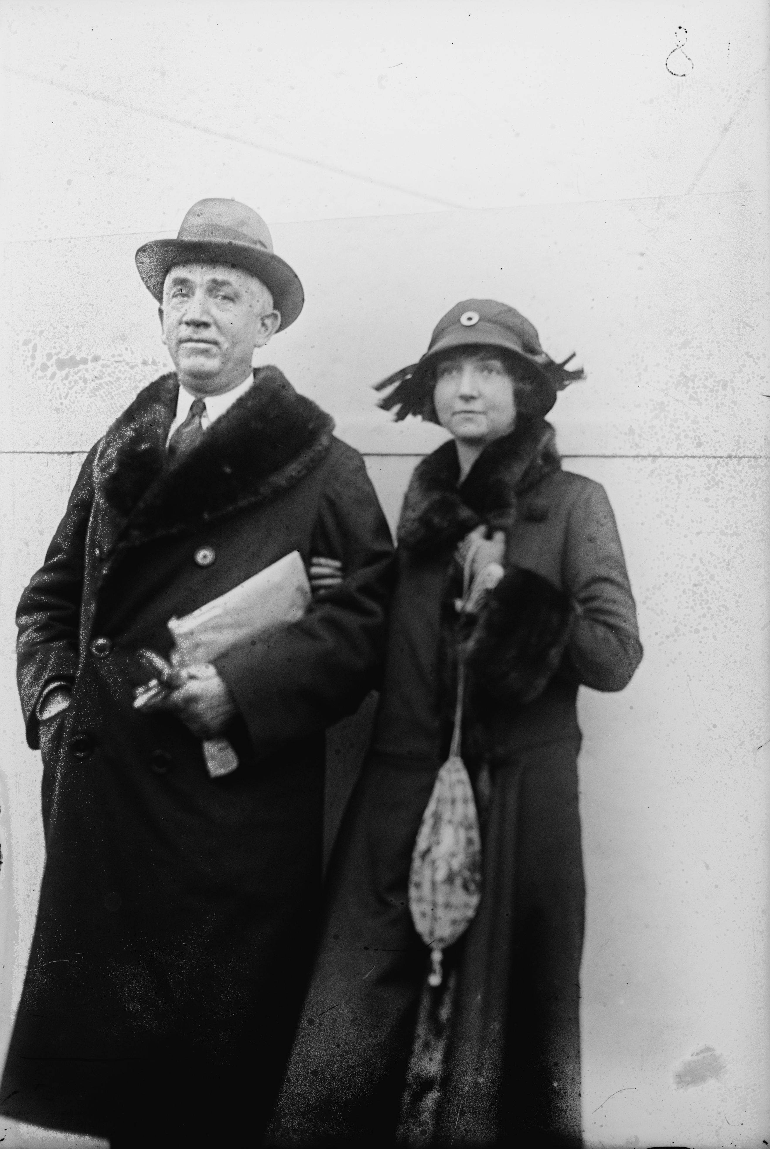 Norman H. Davis and wife.